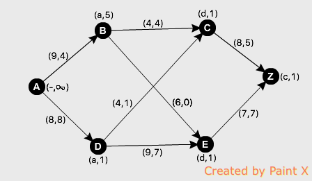 Slika 2.4